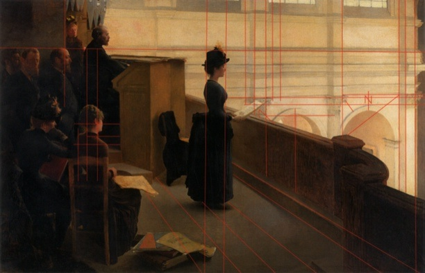 Organ Rehearsal, with underlying gridlines, infrared